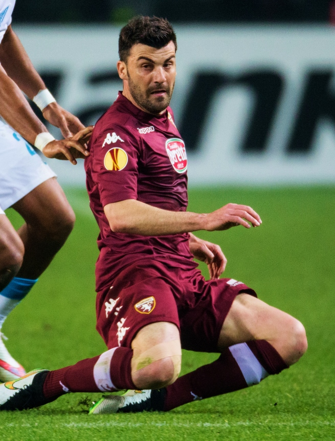 20.03.15. Италия, Турин, «Стадио Олимпико». Лига Европы УЕФА, 1/8 финала, «Торино» — «Зенит». Cesare Bovo